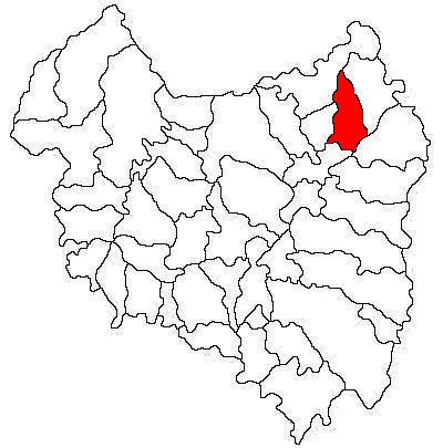 Locator map of Mereni commune, Covasna County, Romania